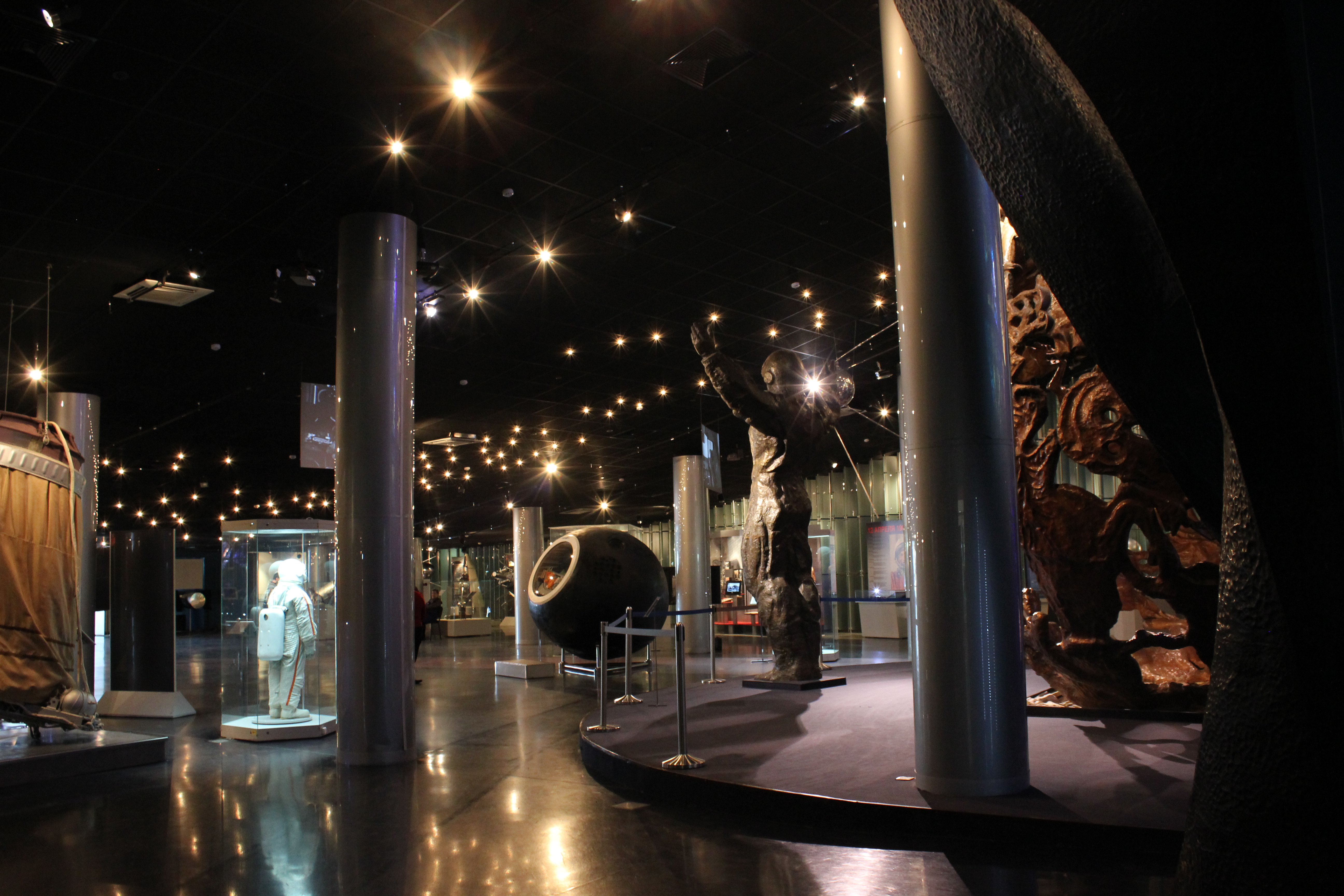 Memorial Museum of Astronautics